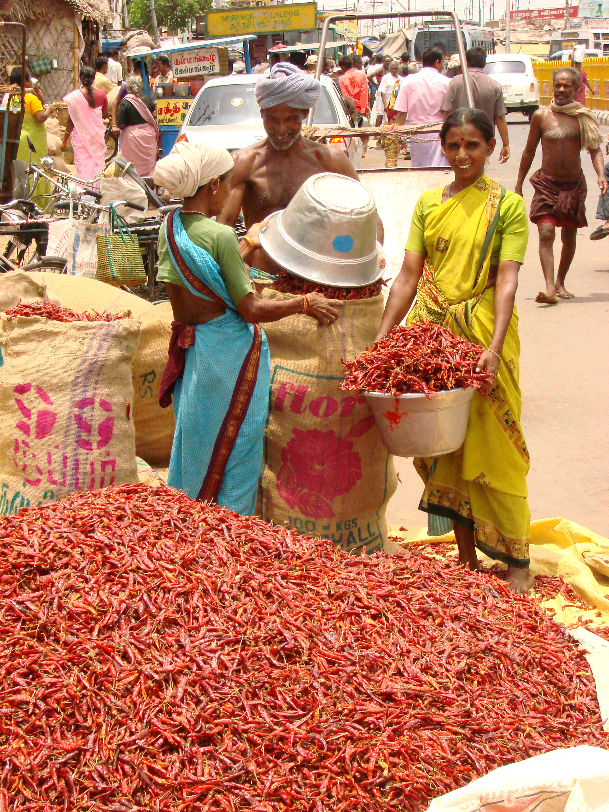 Chili vendors on the street in Tiruchirappalli, India. July 2008.